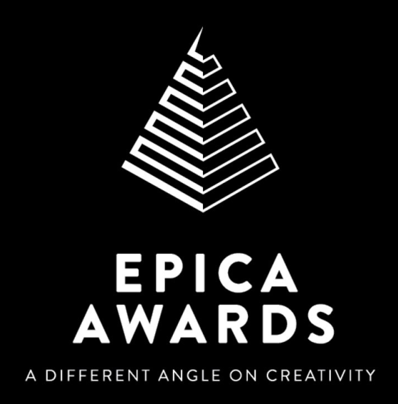 Founded in 1987, Epica is the only creative prize awarded by journalists working for marketing and communications magazines around the world. It offers an independent jury and global press coverage. Launched as the first European advertising competition, today it is an international celebration of creativity, attracting thousands of entries from more than 60 countries.